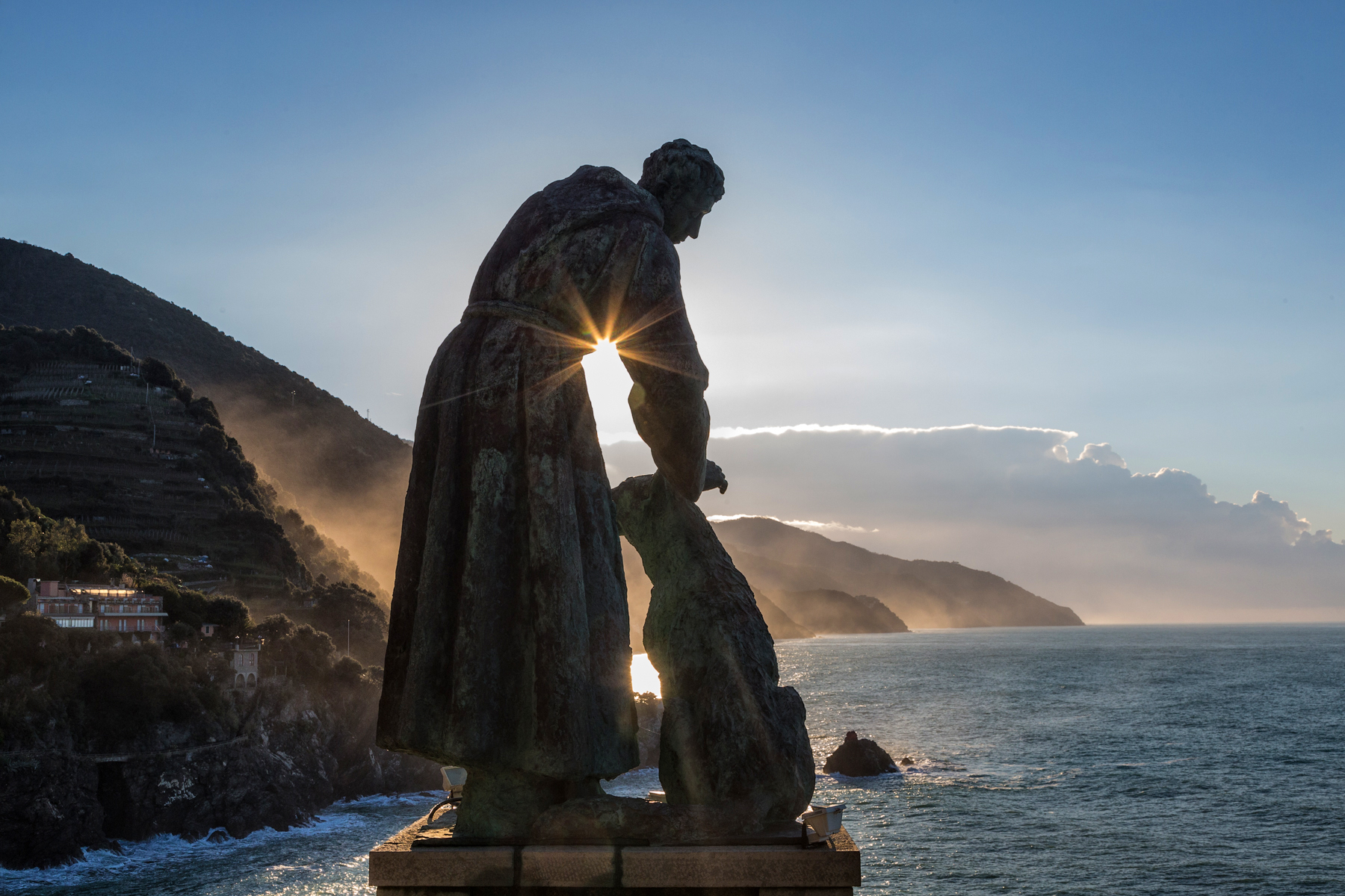 Church and Monastery of Capuchin Friars in Monterosso al Mare - Cinque Terre - Italy It's one of the best monuments in Monterosso, a monastery of the XVII century with a spiritual and peacefull atmosphere according to the experience of St. Francis of Assis. This is a photo of a monument which is part of cultural heritage of Italy.